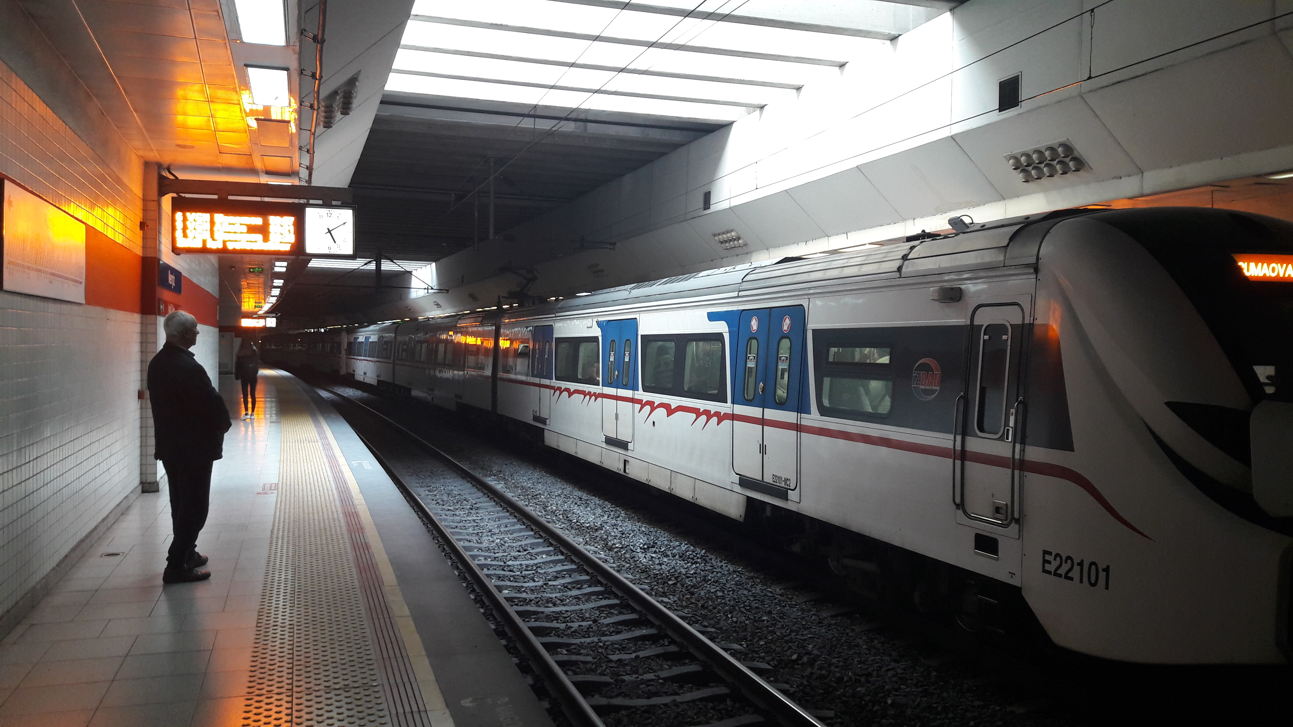 A southbound IZBAN train at Nergiz station.